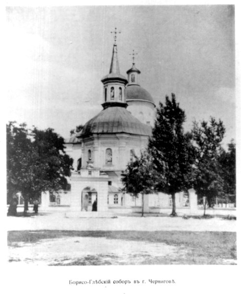 Cathedral of Saints Boris and Gleb in Chernyhiv. Pre-revolutionary photo. In the 1960s, the cathedral was restored to its ancient Russian original form.